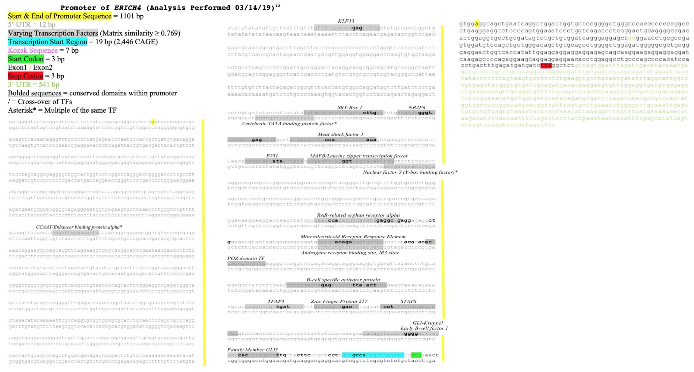 Transcription factors for ERICH4 within the designated promoter sequence.